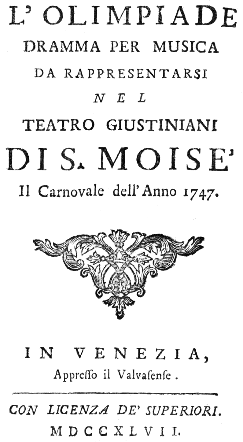 Giuseppe Scolari - Olimpiade - titlepage of the libretto - Venice 1747